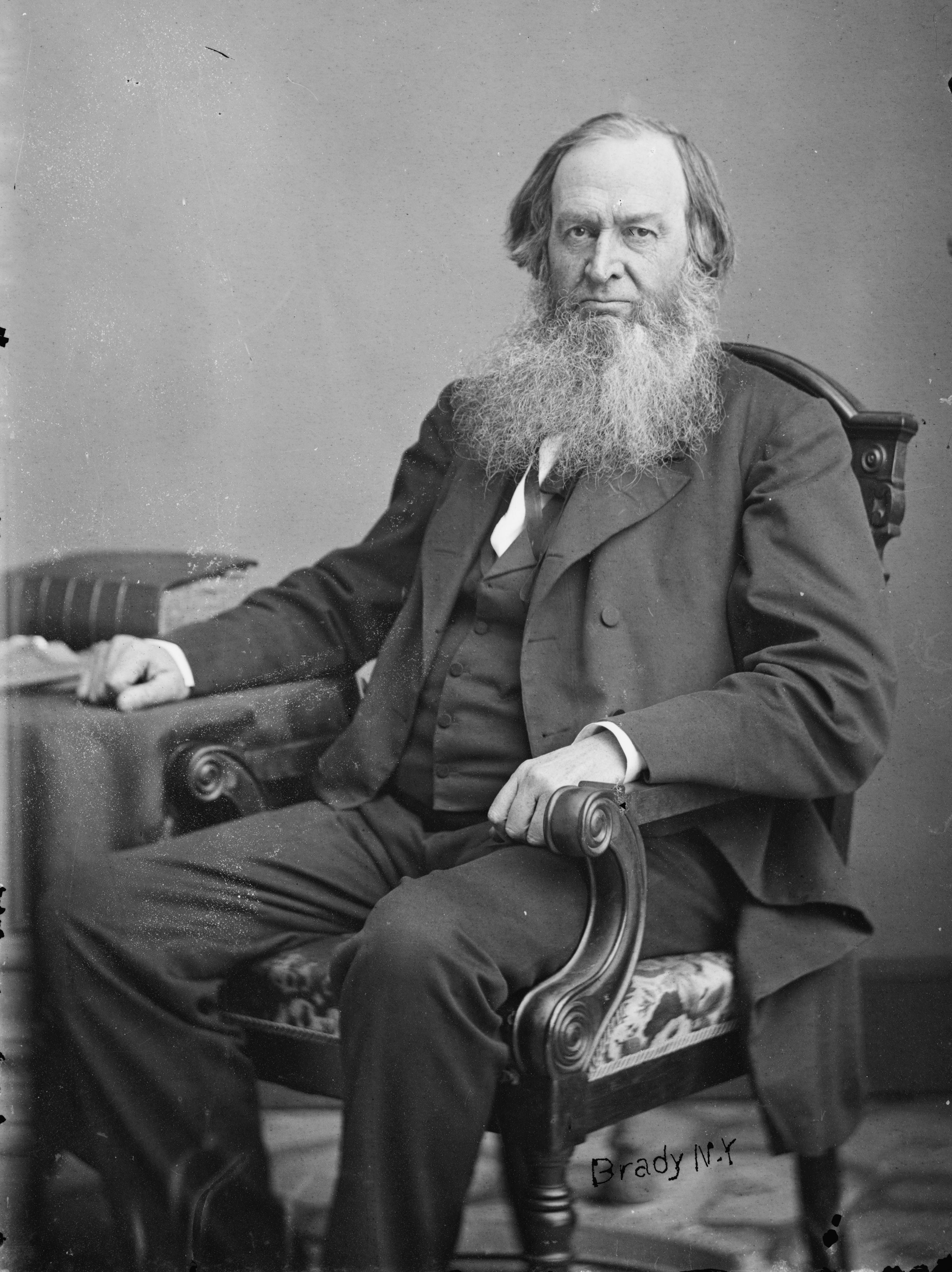 Gerrit Smith. Library of Congress description: "Hon. Gerrit Smith of N.Y."